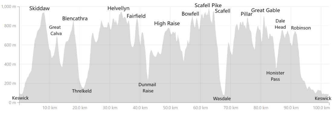 This profile is taken from a GPS trace of my successful clockwise Bob Graham Round. The total recorded ascent (and descent) was 8800m.